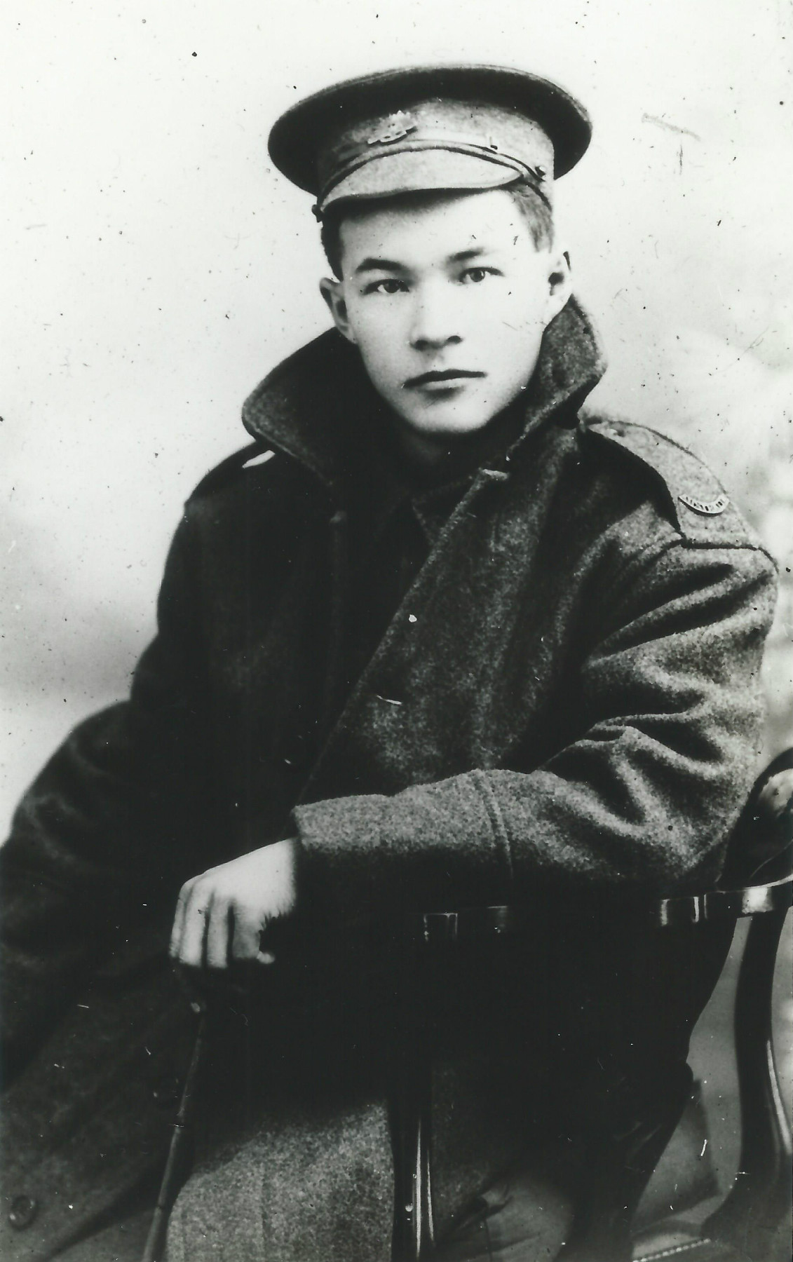 Hunter Robert Poon in uniform